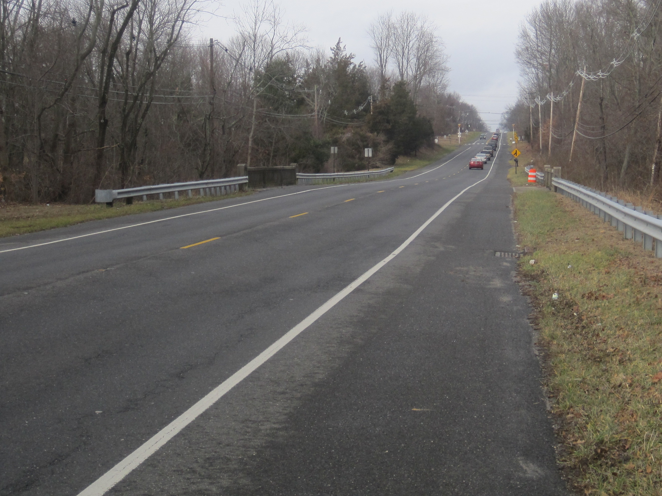 A wide shot of northbound County Route 539 in Upper Freehold Township, New Jersey just north of County Route 537. The bridge in the foreground was built by the state in 1940 and has "State Highway Route 37" stamped on the side.